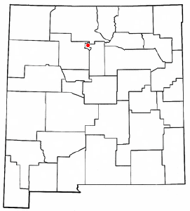 This image shows the geographical position of Los Alamos, New Mexico.